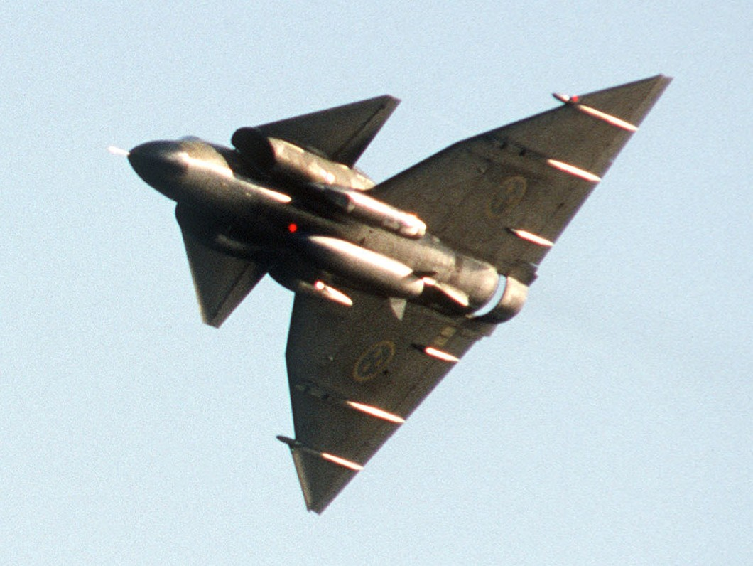 An underside view of a Swedish Saab 37 Viggen fighter aircraft during Exercise BALTOPS '85.